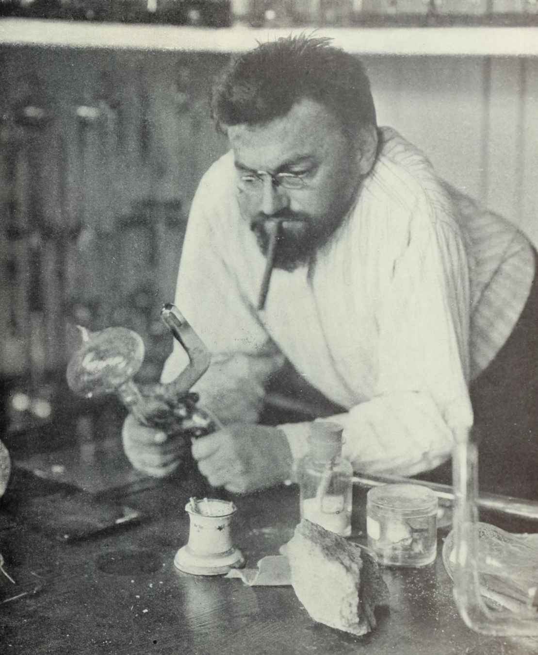 Picture of Charles Proteus Steinmetz